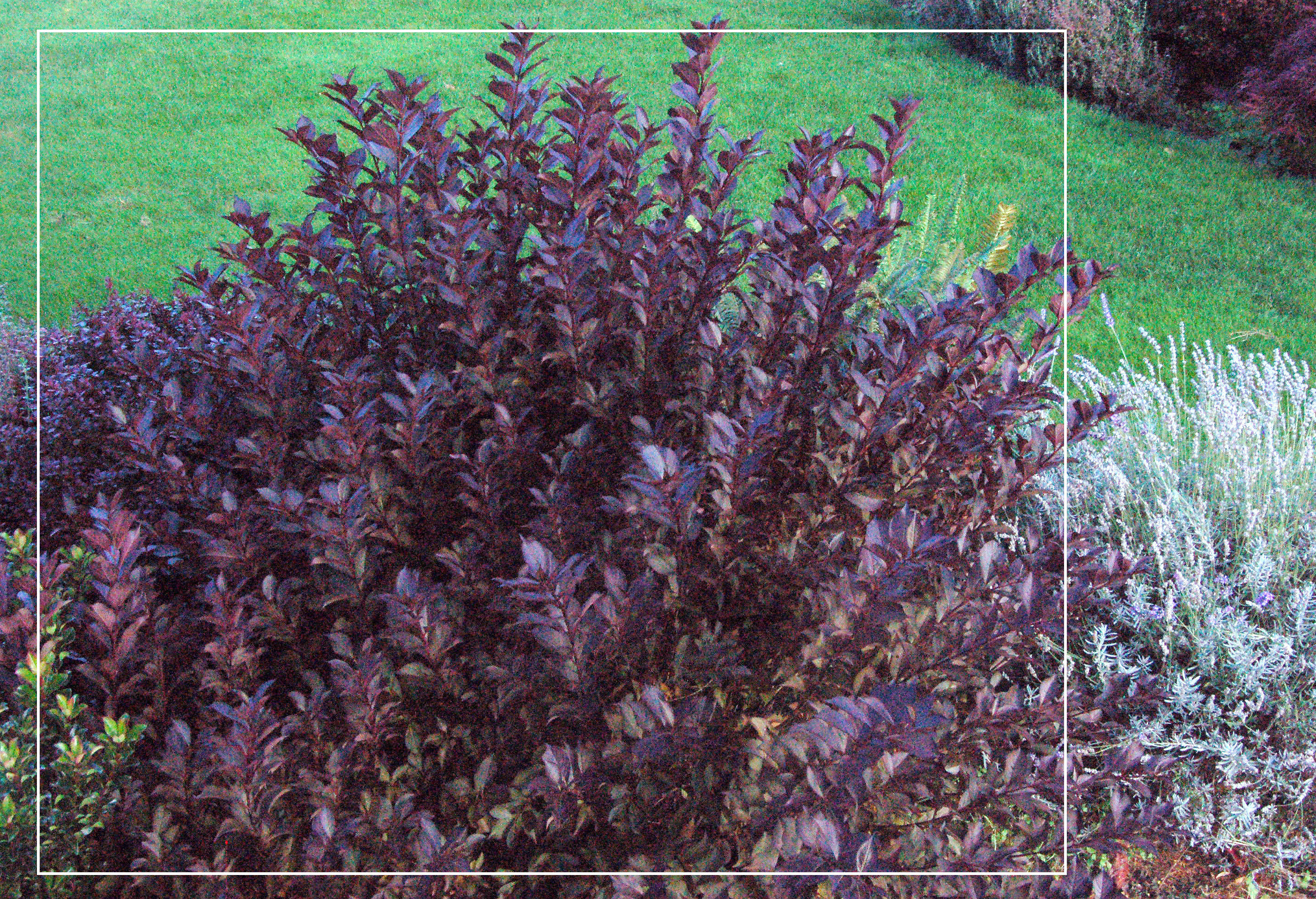 Image of Weigela florida “Wine & Roses” shrub showing the foliage. Included in the periphery are dwarf Indian hawthorn, English lavender, and sword fern.